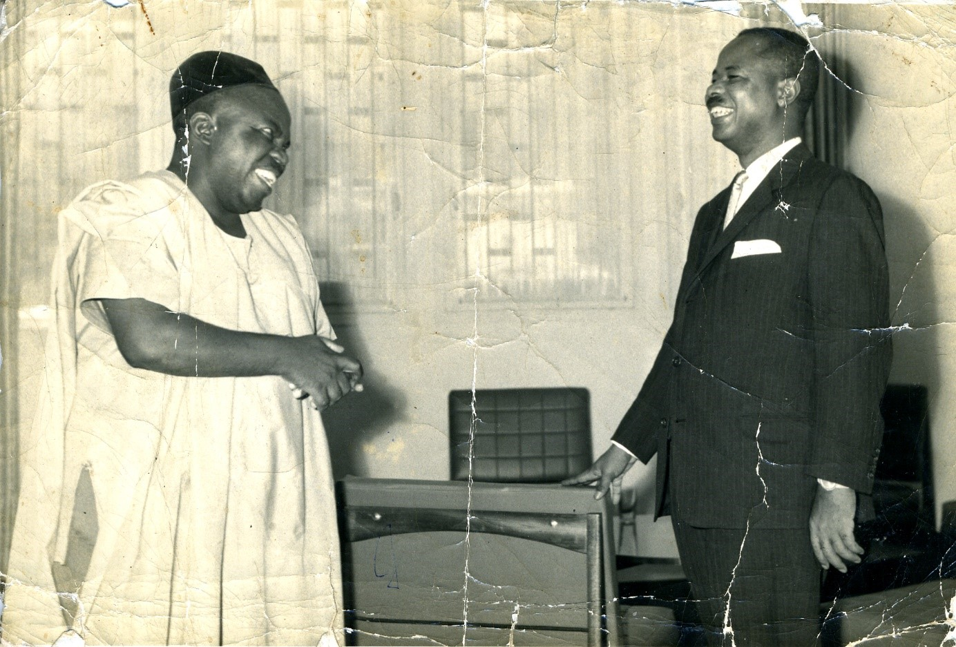 Kamé Samuel and Ahmadou Ahidjo